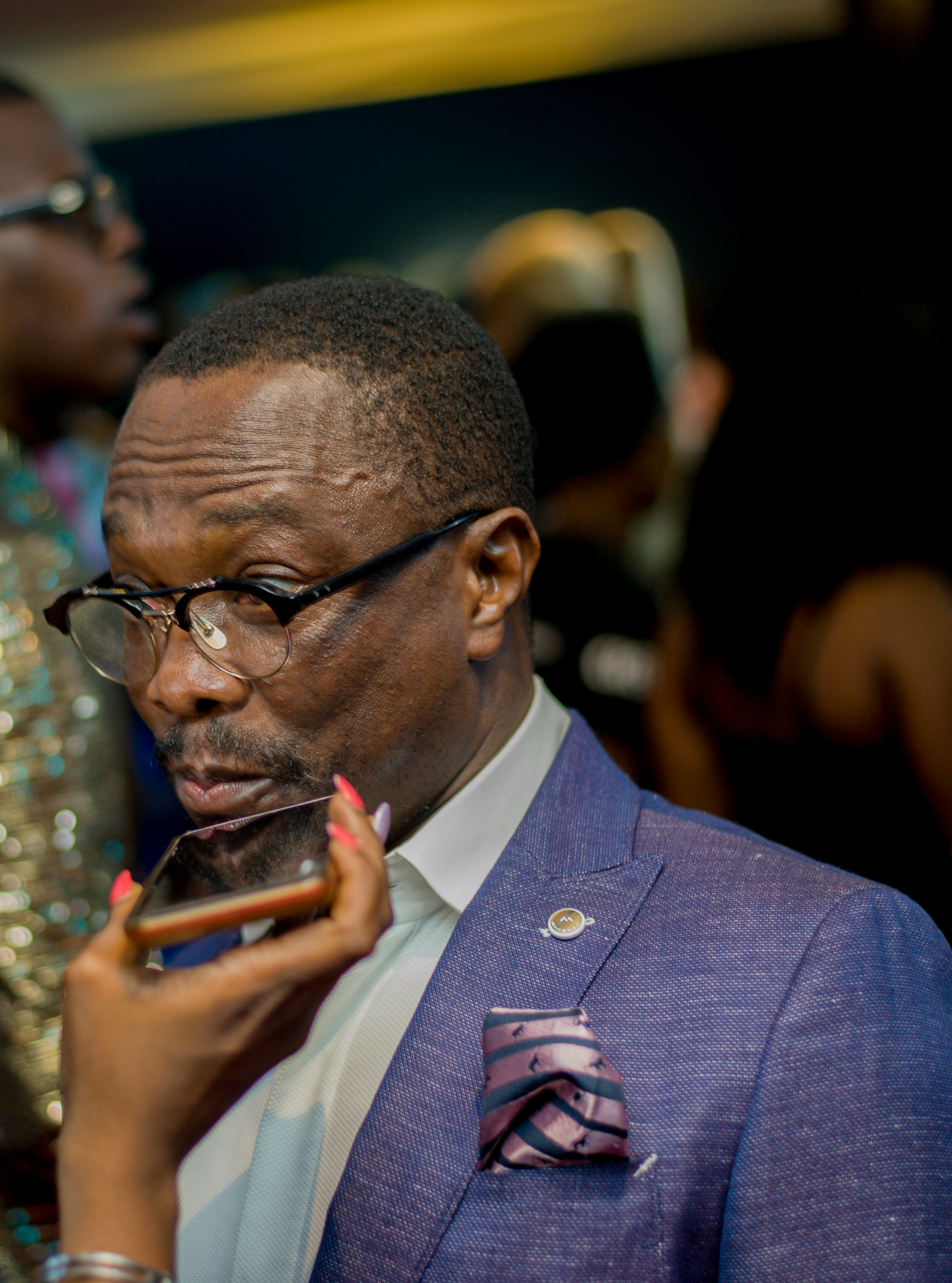 Julius Agwu at AMVCA 2020